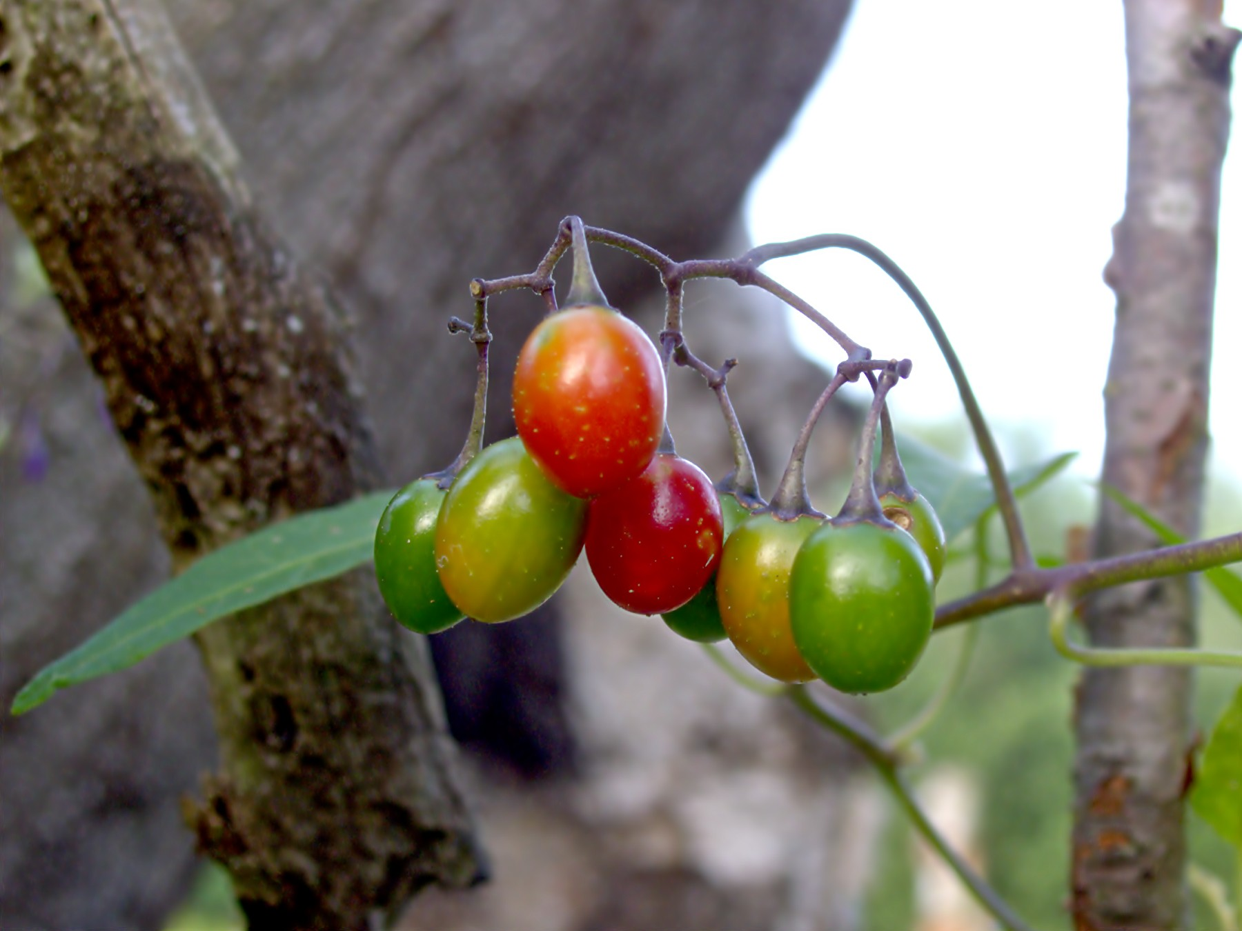 Name: Solanum dulcamara (in a swamp). Close-up of bittersweet fruits. Location: Münster, NRW, Germany